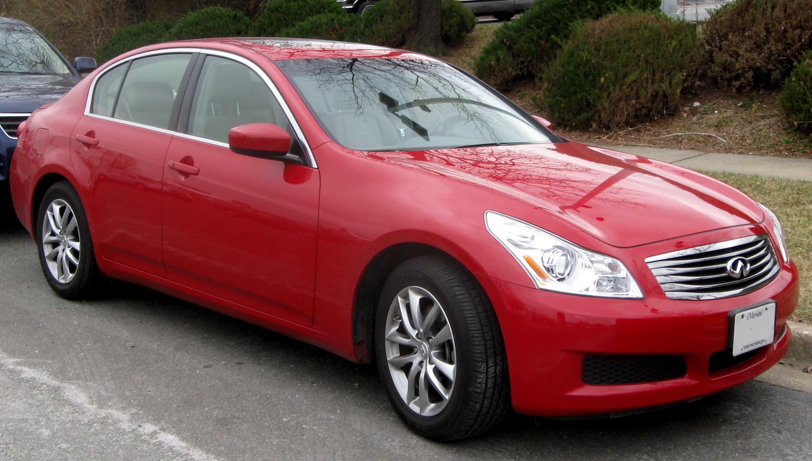 2007-2009 Infiniti G photographed in Silver Spring, Maryland, USA.